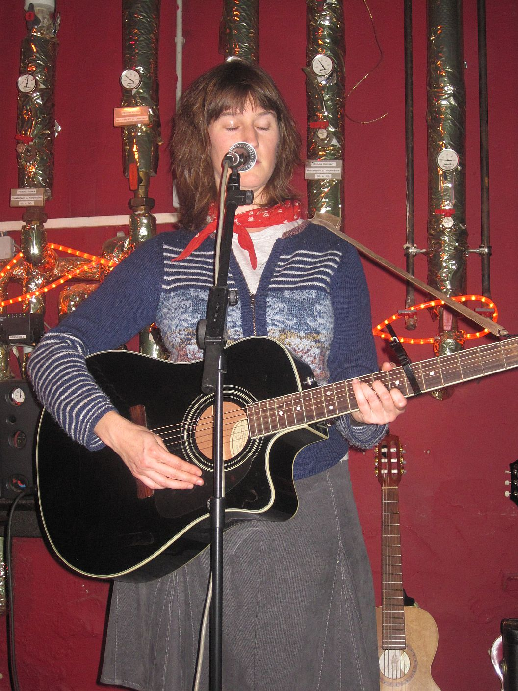 Singer-songwriter Phoebe Kreutz (NY City) performing at Baari Bar, Marburg, Germany